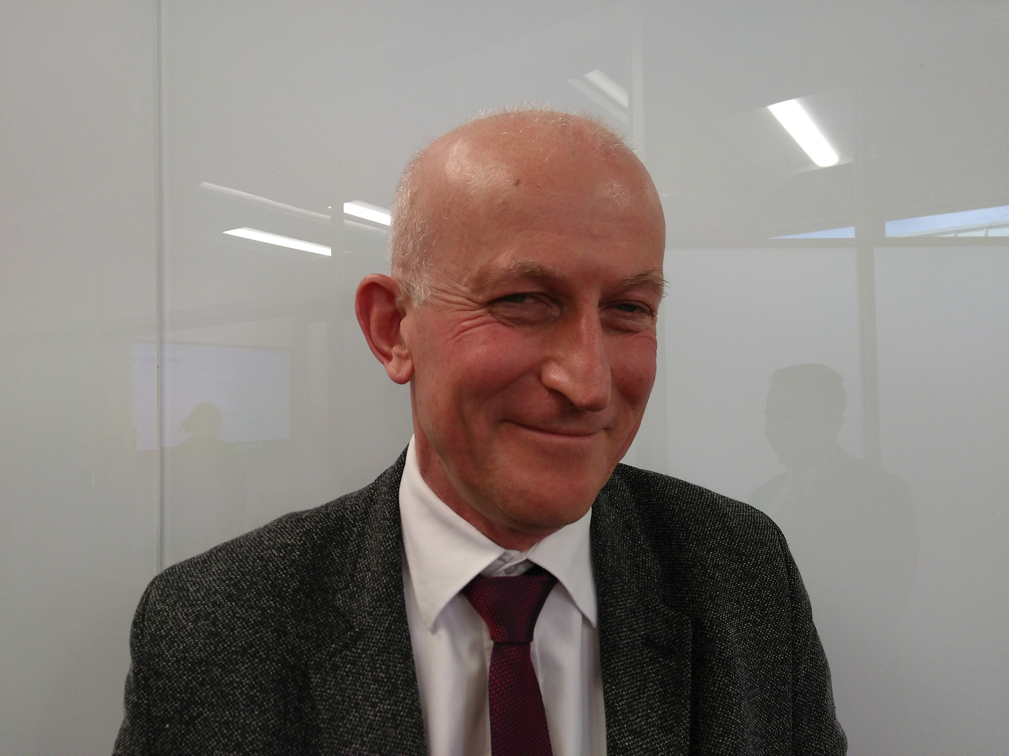 Jacek Leśkow on 27 March 2019 in the Data Science Institute of the University of Virginia